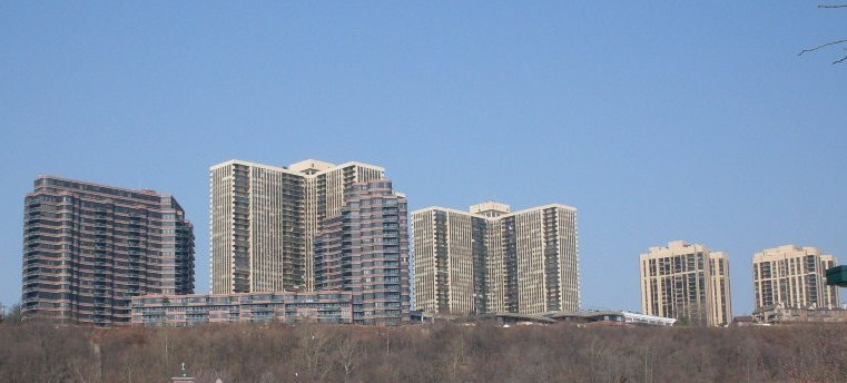 Palisades Amusement Park site developed with high rise condominiums.